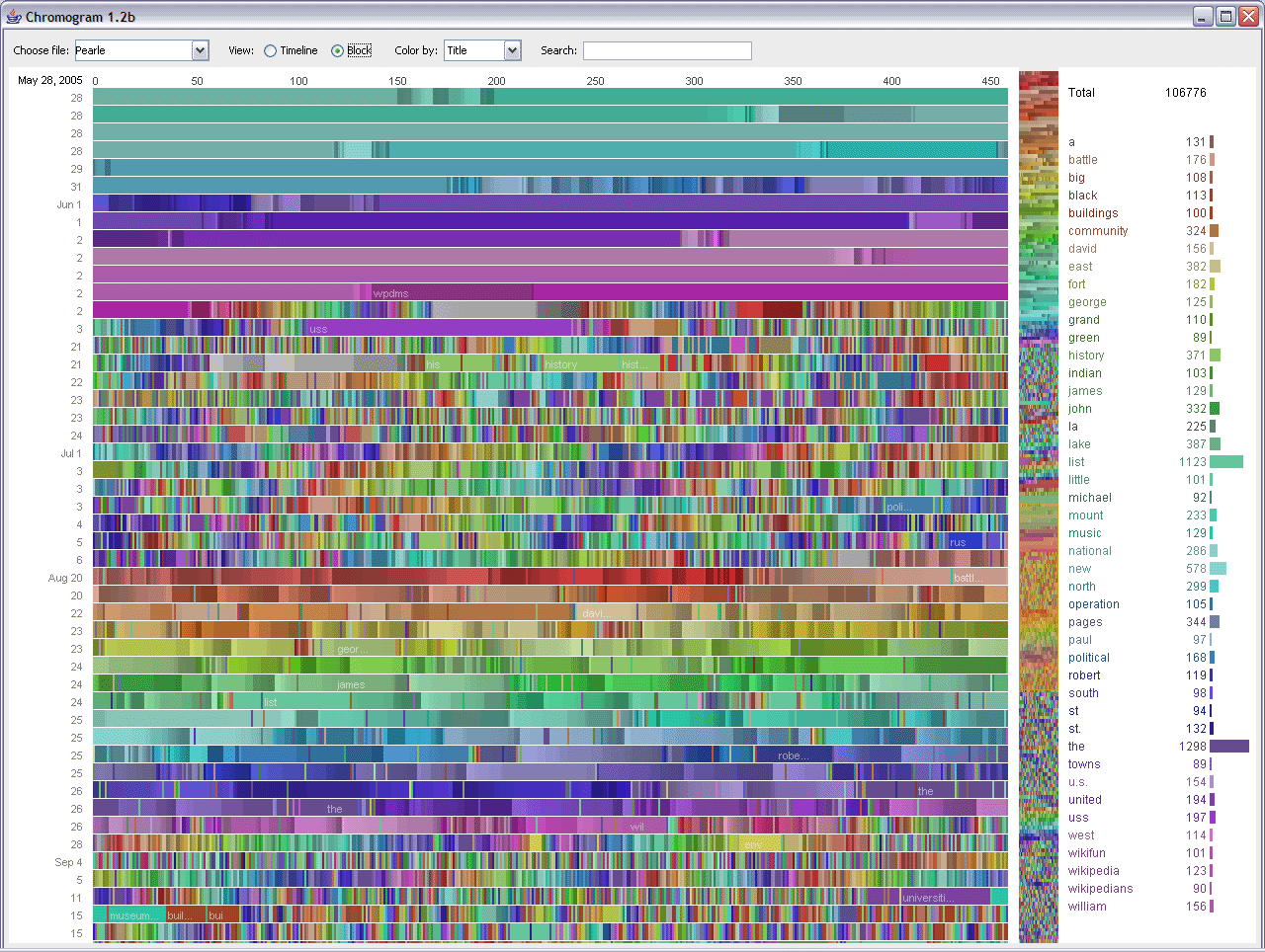 Visualization of all editing activity by user "Pearle" on Wikipedia (Pearle is a robot). To find out more about this project, see (2007). "Visualizing Activity on Wikipedia with Chromograms". Proceedings of INTERACT.